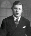 E. Herbert Norman as a teenager